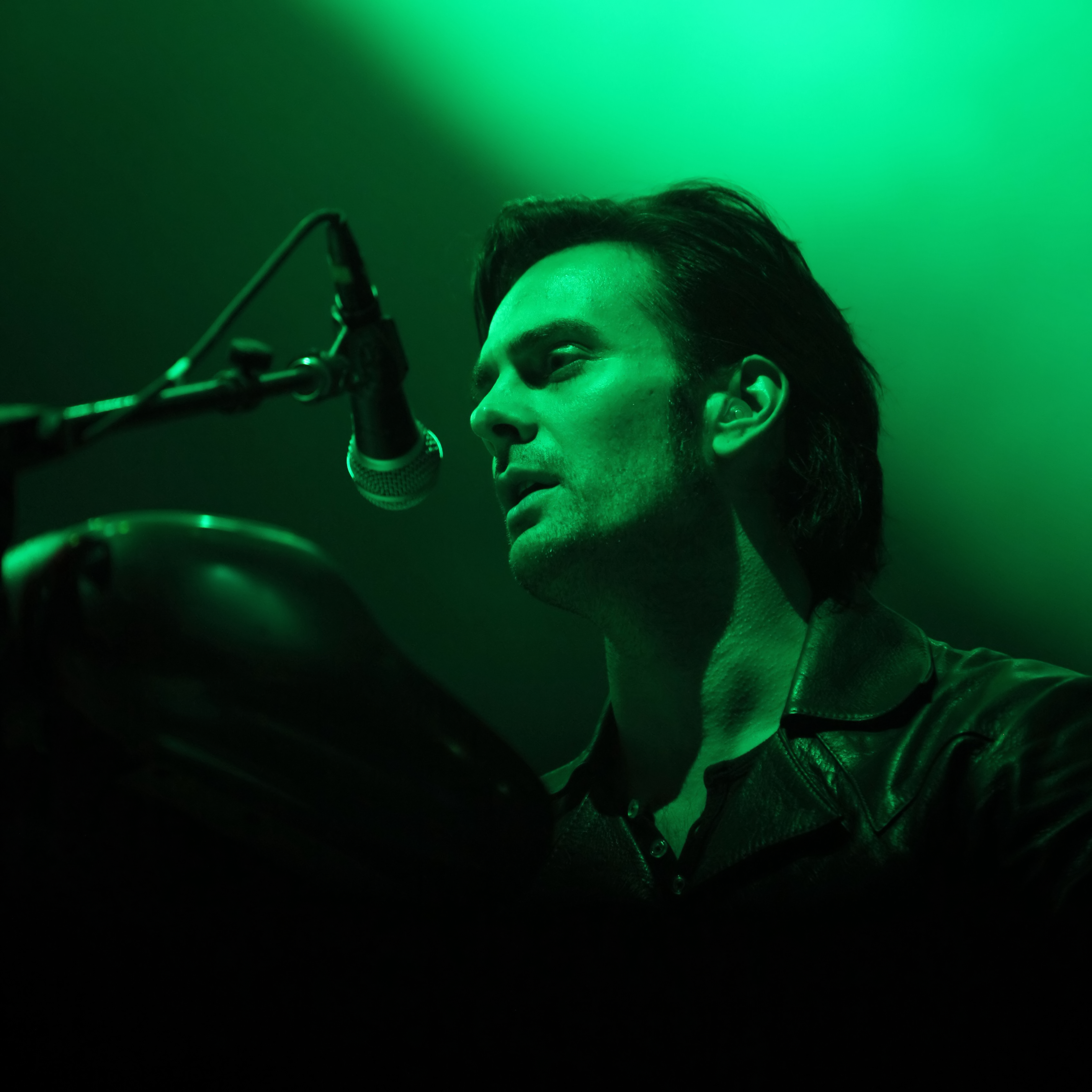 Dean Fertita with Queens of the Stone Age at the Eurockéennes de Belfort 2011 The making of this document was supported by Wikimedia CH. (Submit your project!) For all the files concerned, please see the category Supported by Wikimedia CH.